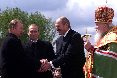 PROKHOROVKA, BELGOROD REGION. Vladimir Putin with presidents Leonid Kuchma of Ukraine (to the left) and Alexander Lukashenko of Belarus, and the Patriarch of Moscow and All Russia Alexy II in Sts. Peter and Paul's Church after Easter liturgy.